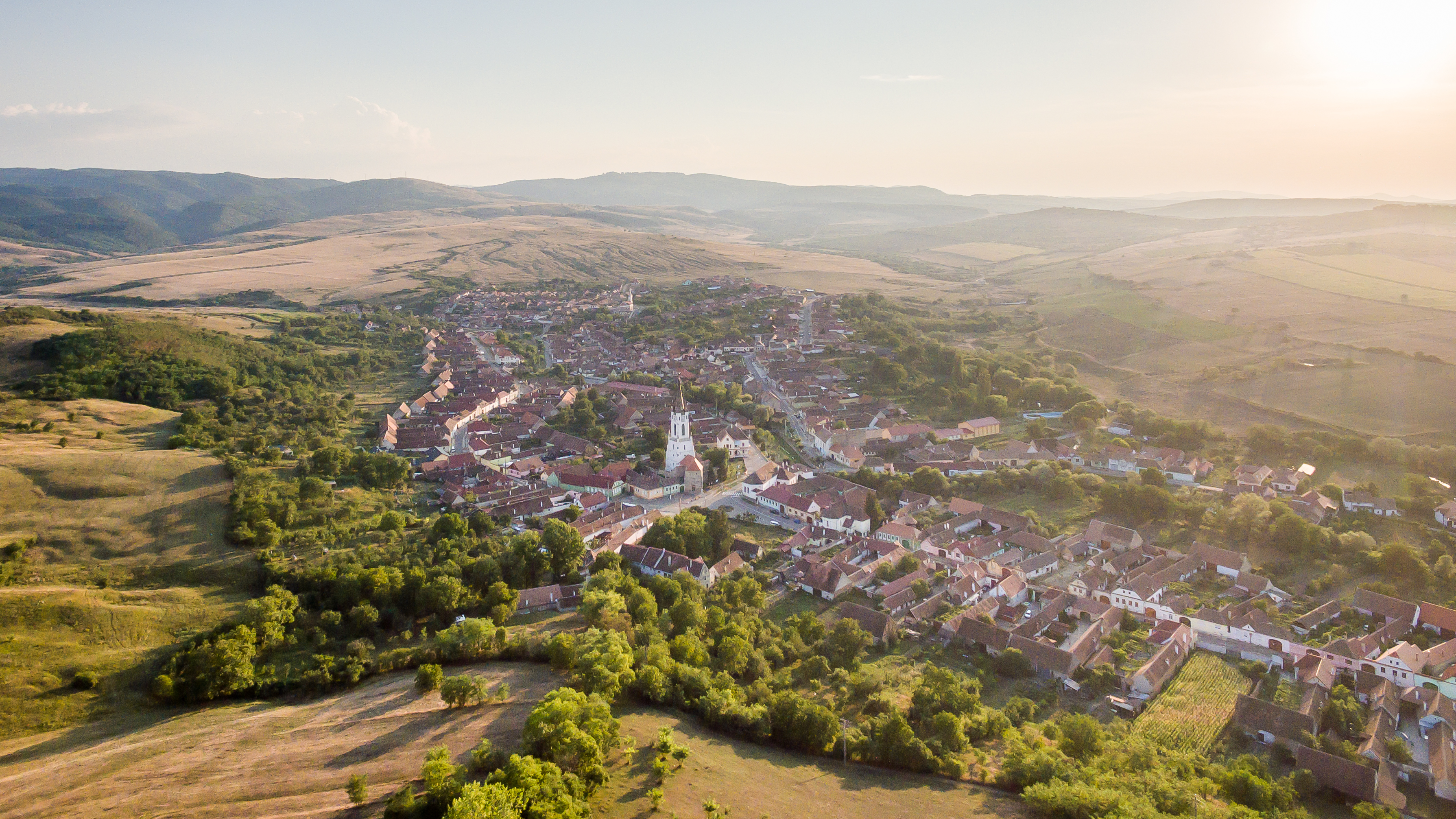 Aerial view Garbova, Romania